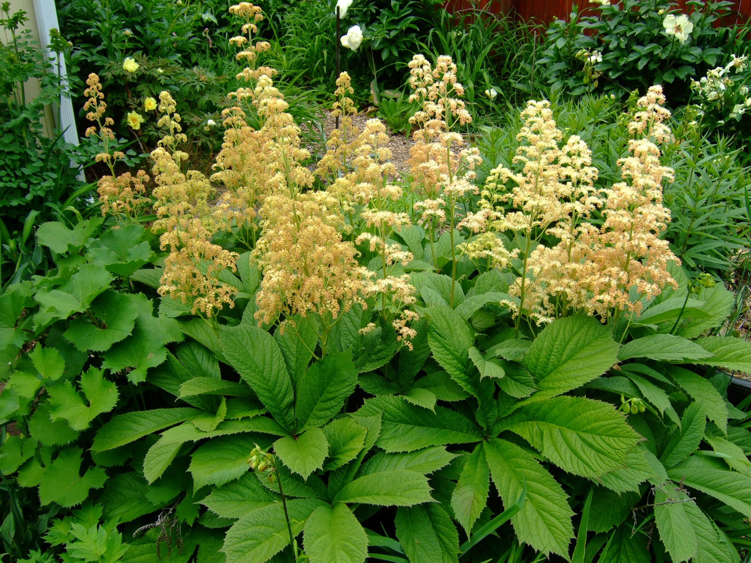 Rodgersia pinnata 'Superba' in the garden of botanist Robert R. Kowal in Madison, Wisconsin. The cultivar 'Superba' may be a hybrid between Rodgersia aesculifolia and R. pinnata.